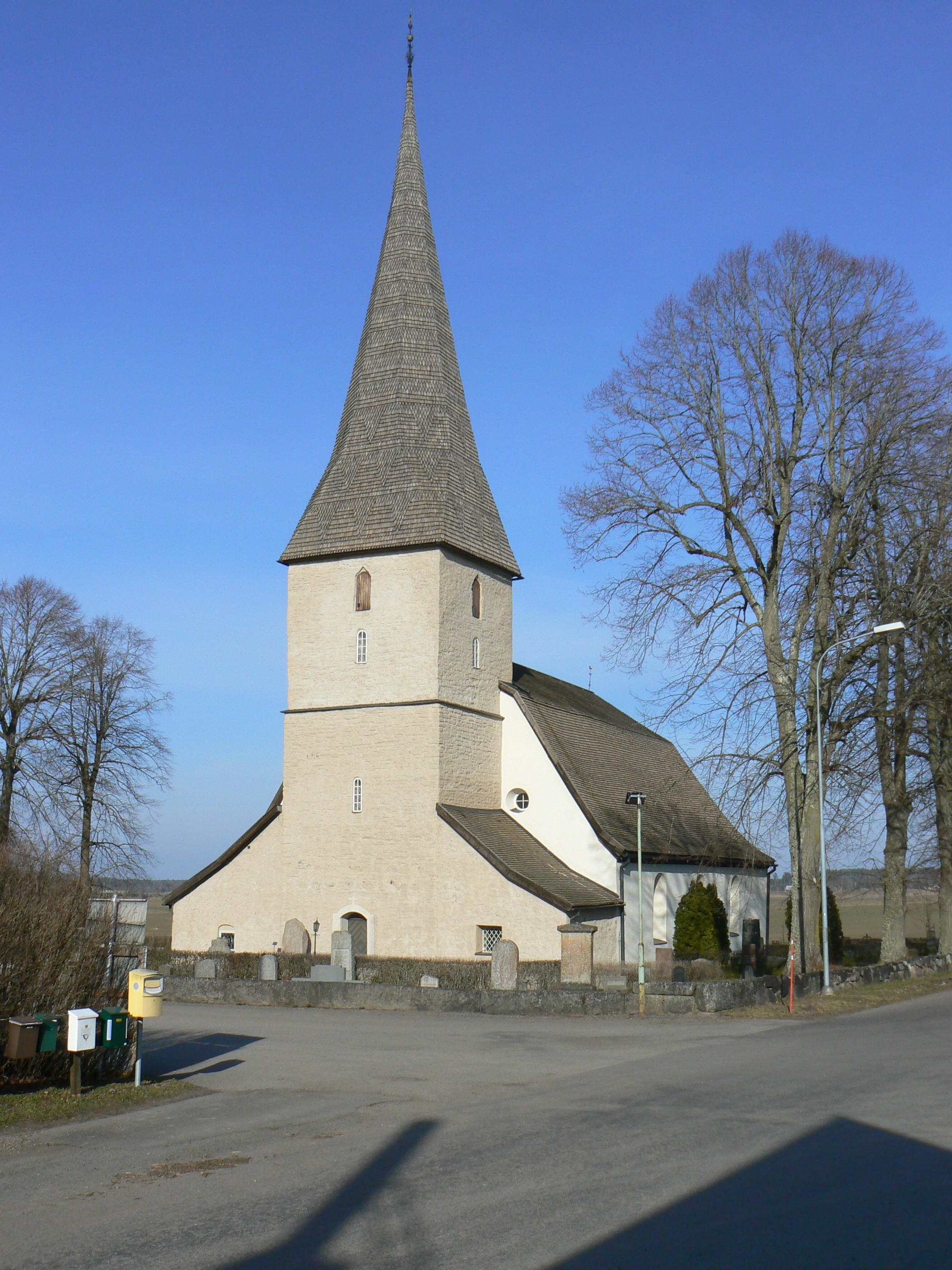 Viby Church in Östergötland, Sweden.